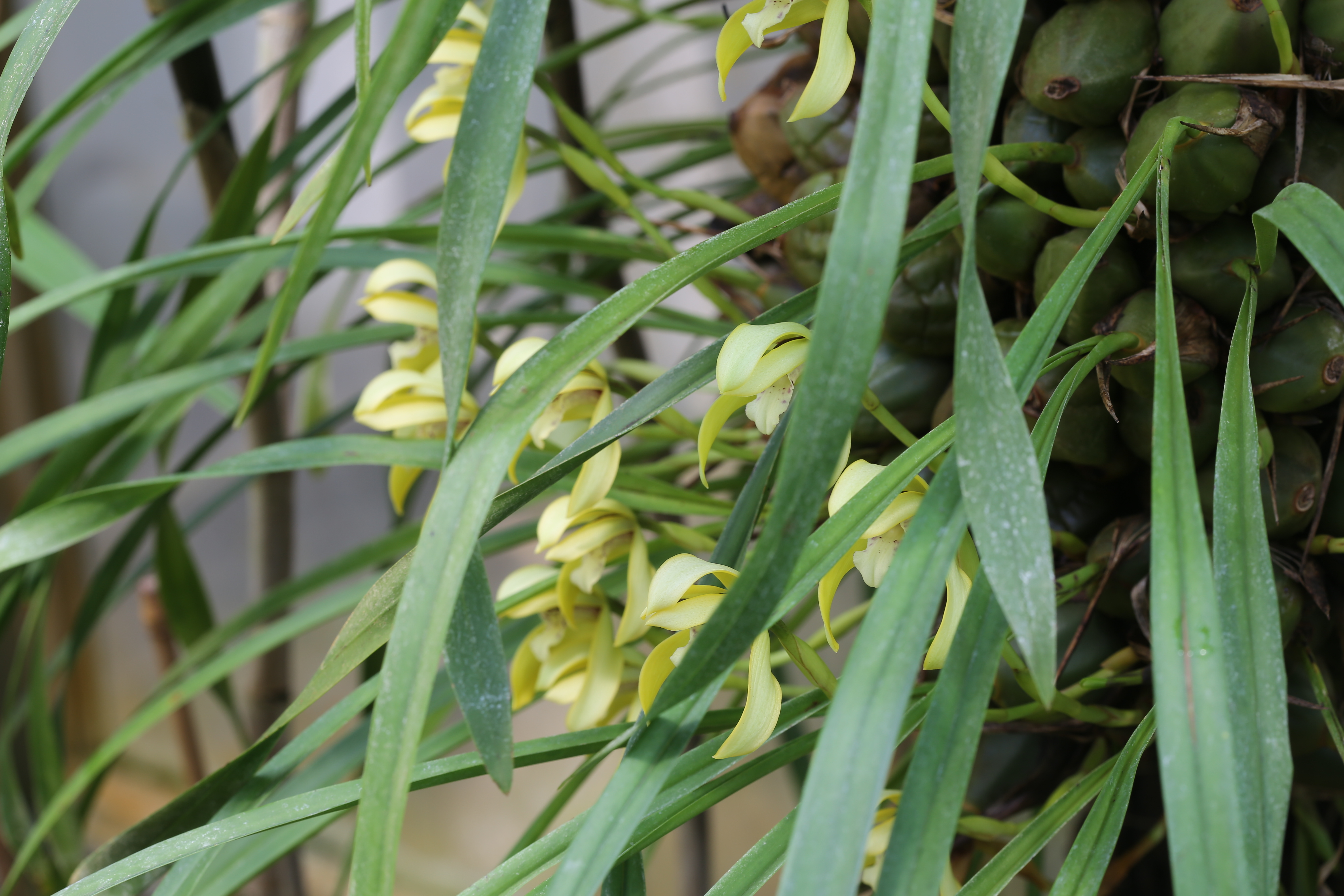 Maxillaria porphyrostele at Gothenburg botanical garden in 2015. Plant id: 1962-V0575 p G -- Kew